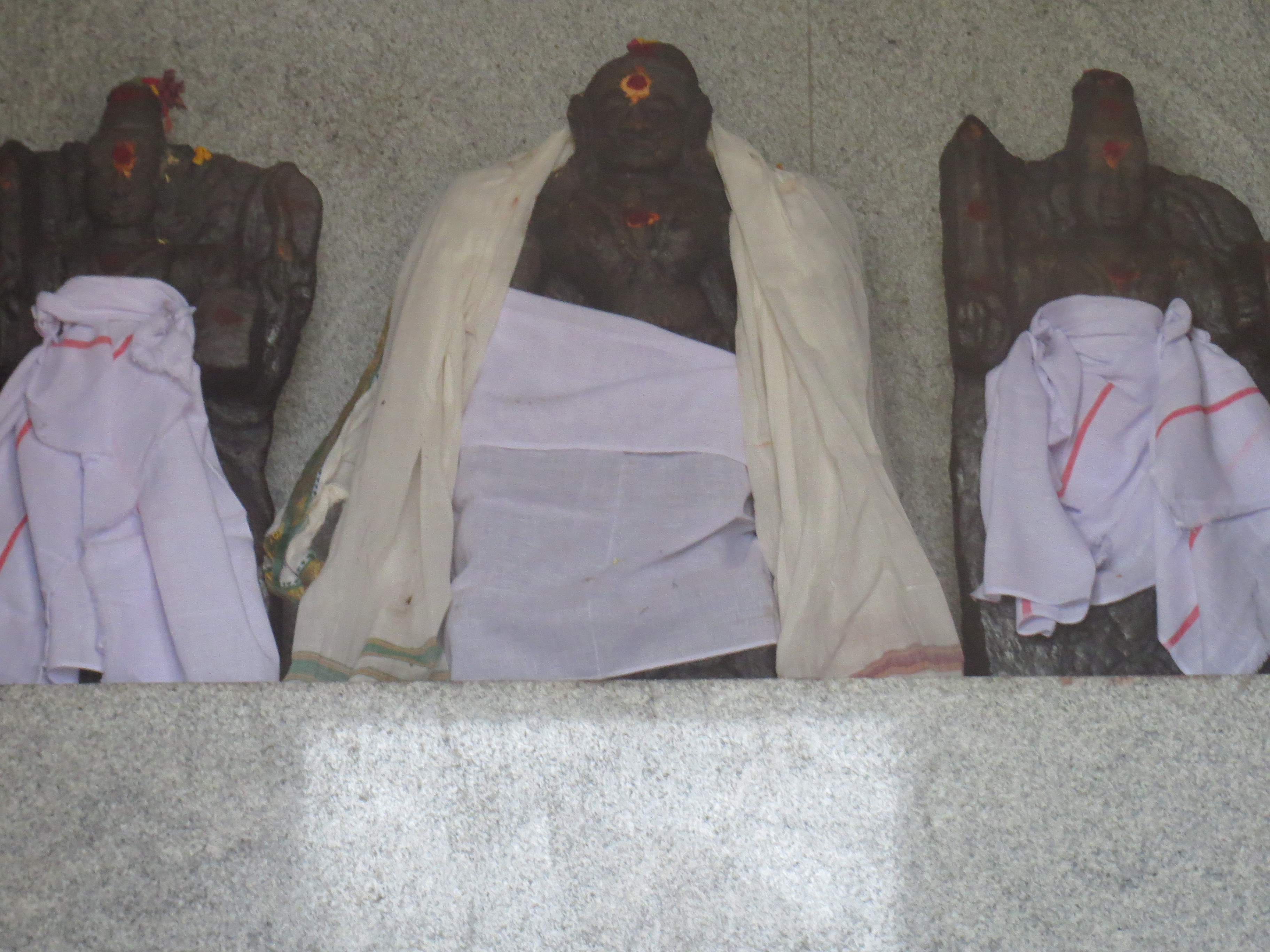 Idumban, Kadamban and Veerabahu Sannithi at Kurunthamalai kuzhanthai Velayutha swamy Temple near Coimbatore, Tamil Nadu, India.